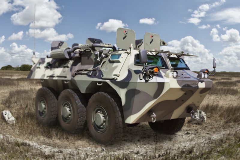 Pindad Anoa. Official photo approved for release, the Indonesian Ministry of State-owned Enterprises.